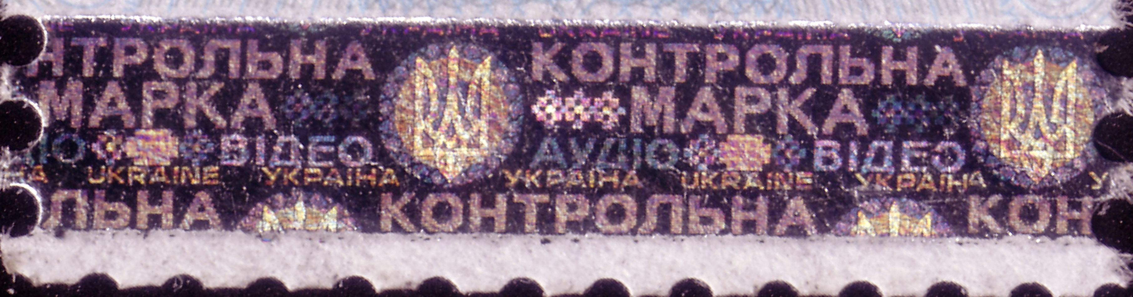 Excise stamp of Ukraine, 1997?